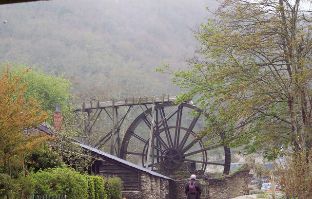 Waterwheel at Morwellham Quay